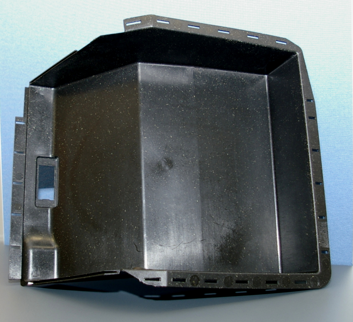 Glove box made by a biocomposite of hemp fibres and polypropylen.